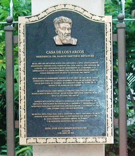 Photo of the plaque in front of Ramón Emeterio Betances' house in Mayagüez, Puerto Rico.